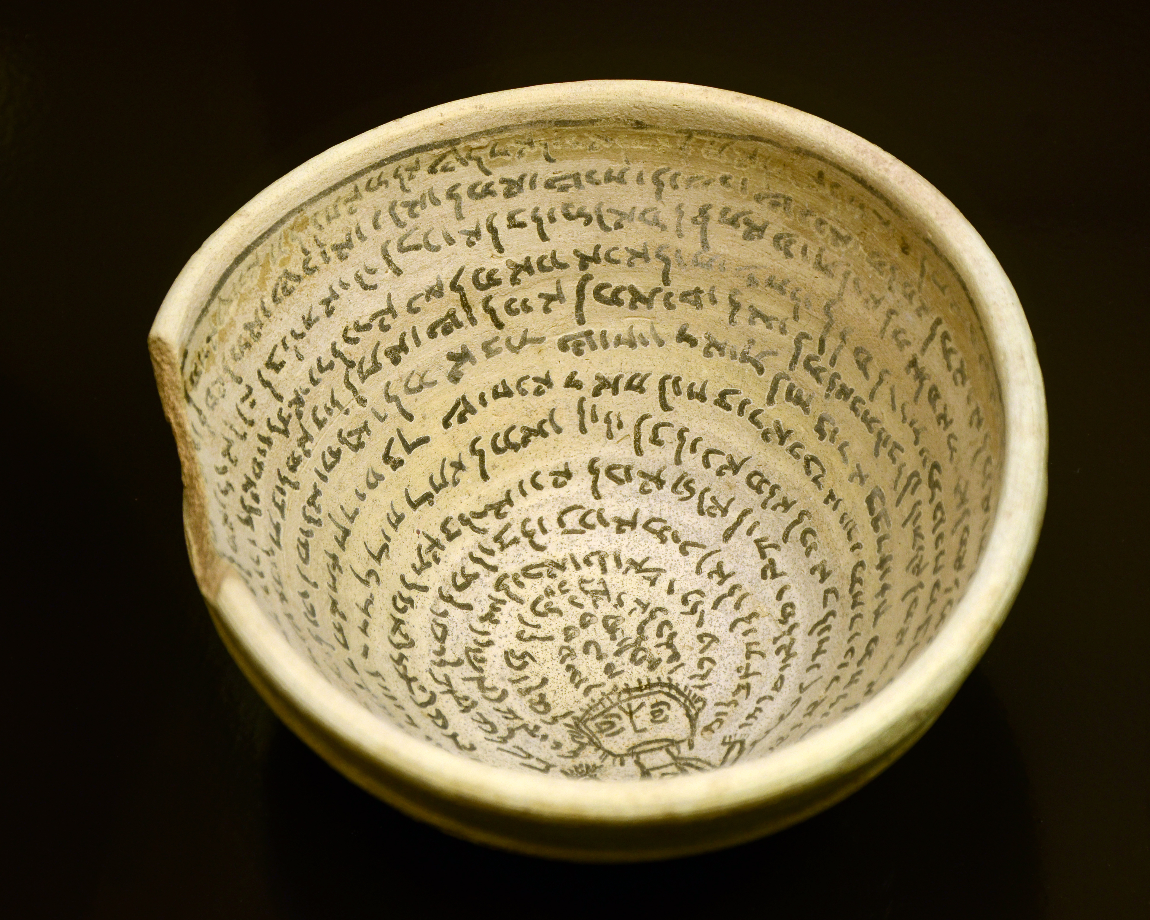 Incantation bowl with aramaic text, from Nippur, 4th or 5th century. Musée de Mariemont.